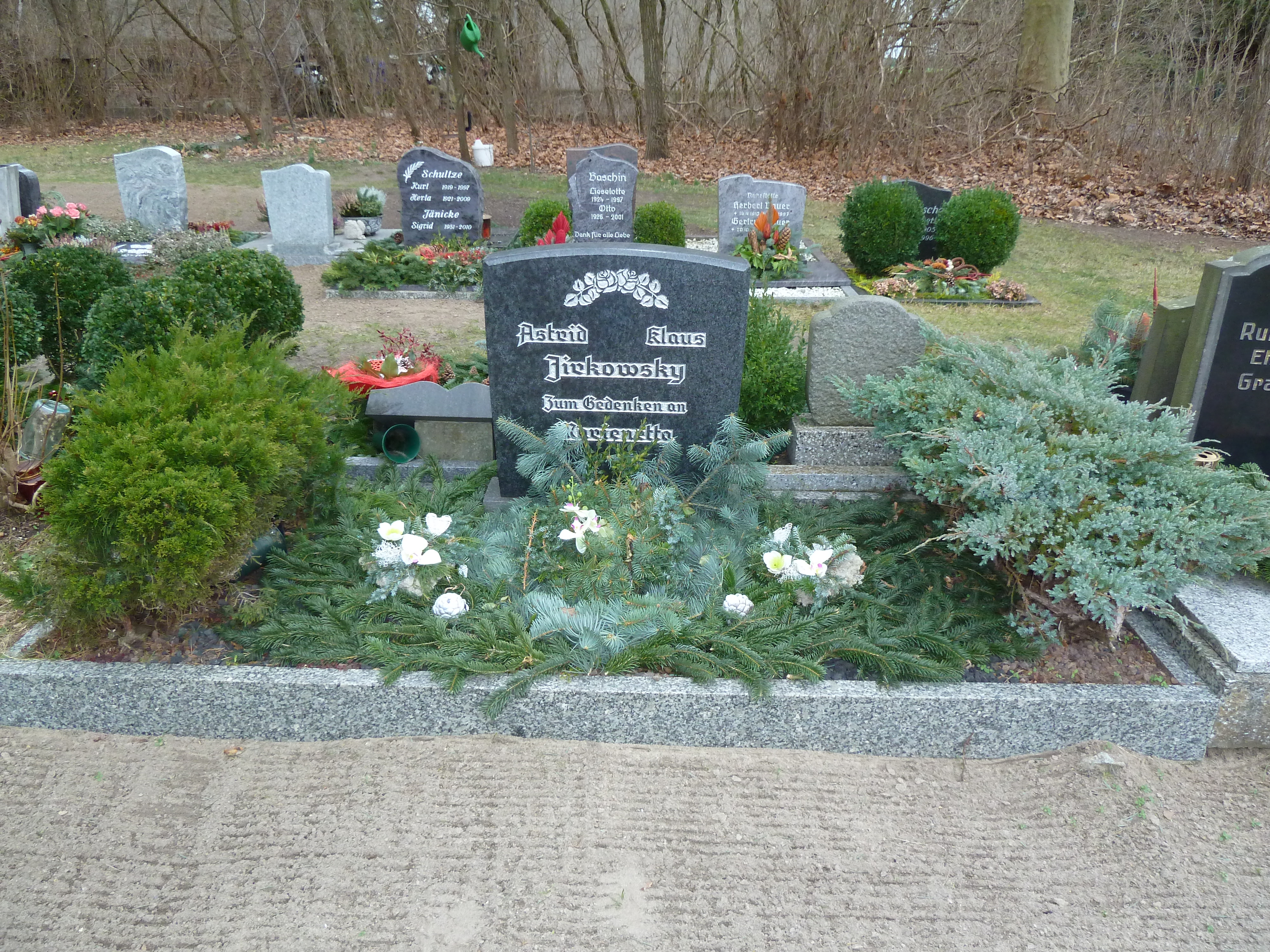 Close-up view of the family grave of Marienetta Jirkowsky, Spreenhagen Cemetery